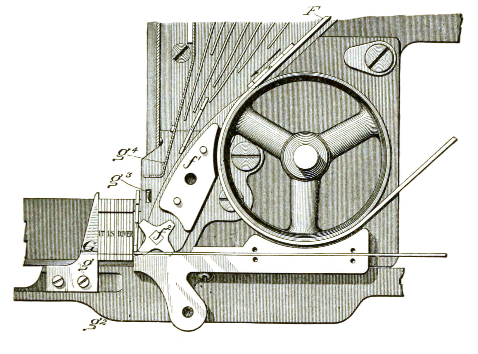 Diagram of the workings the line assembling mechanism of a Linotype machine used in typesetting, ca. 1904 (File digitally cleaned up by uploader)